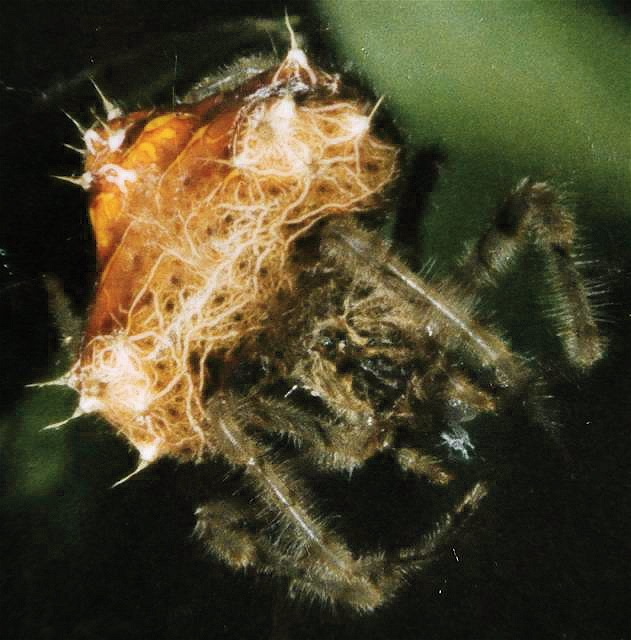 This spider was discovered in Pietermaritzburg (South Africa)in 2000 at a house Millikan road in the suburb of Prestbury by John Roff.